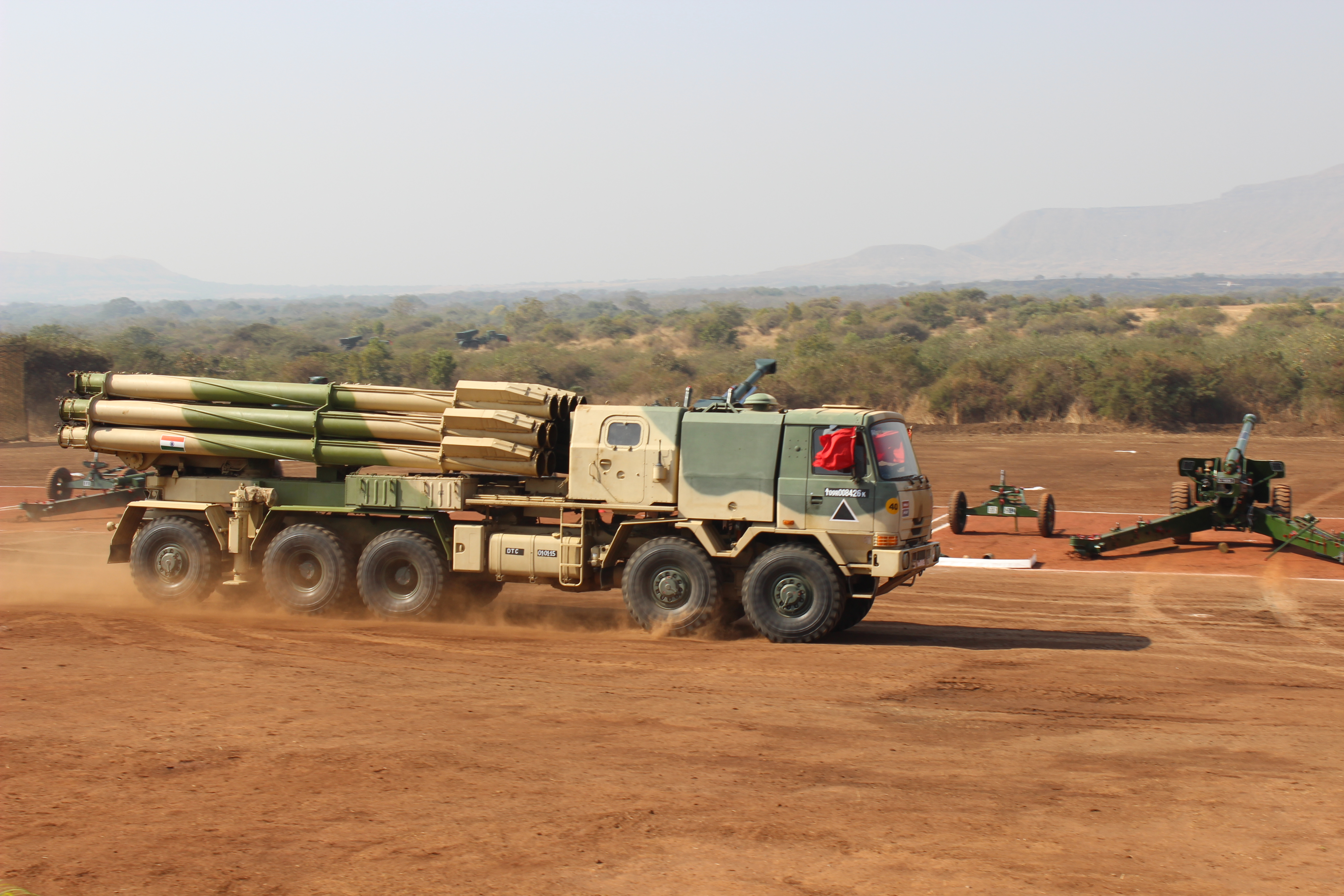 Haavy ballistic launcher at Indian Army Aviation Corps and Air Defence Arty Joint Display Ex